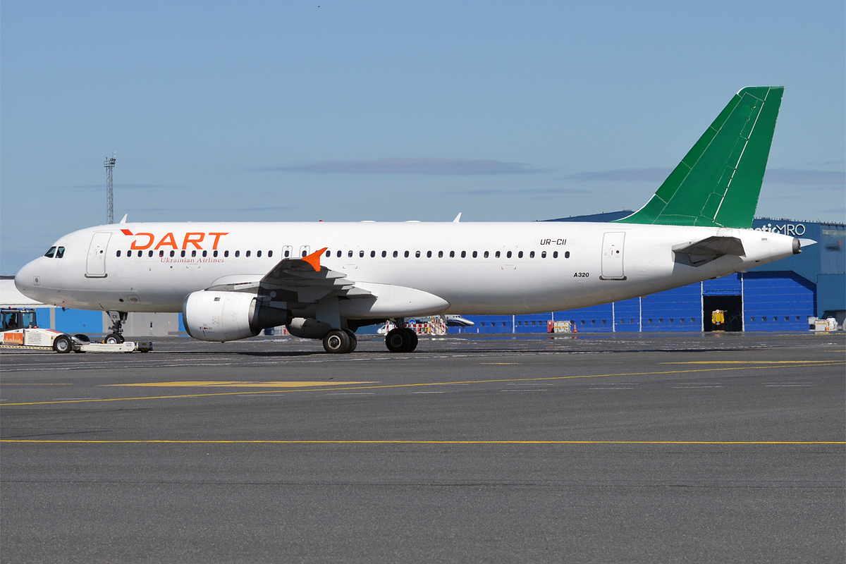 Dart Airlines, UR-CII, Airbus A320-212